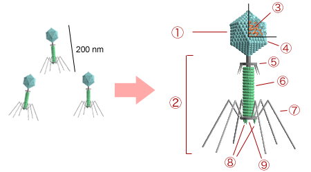 Structure of Bacteriophage T4. Head Tail Nucleic acid Capsid Collar Sheath Tail fiber Spikes Baseplate